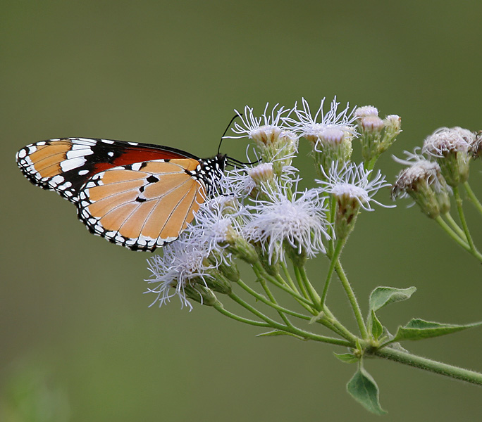 Plain Tiger Danaus chrysippus at Jayanti in Buxa Tiger Reserve in Jalpaiguri district of West Bengal, India.